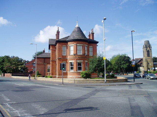 The Whalley Public House, Brooks Bar The Whalley Public House stands on the junction of Withington Road and Upper Chorlton Road. Five roads meet at this busy intersection.